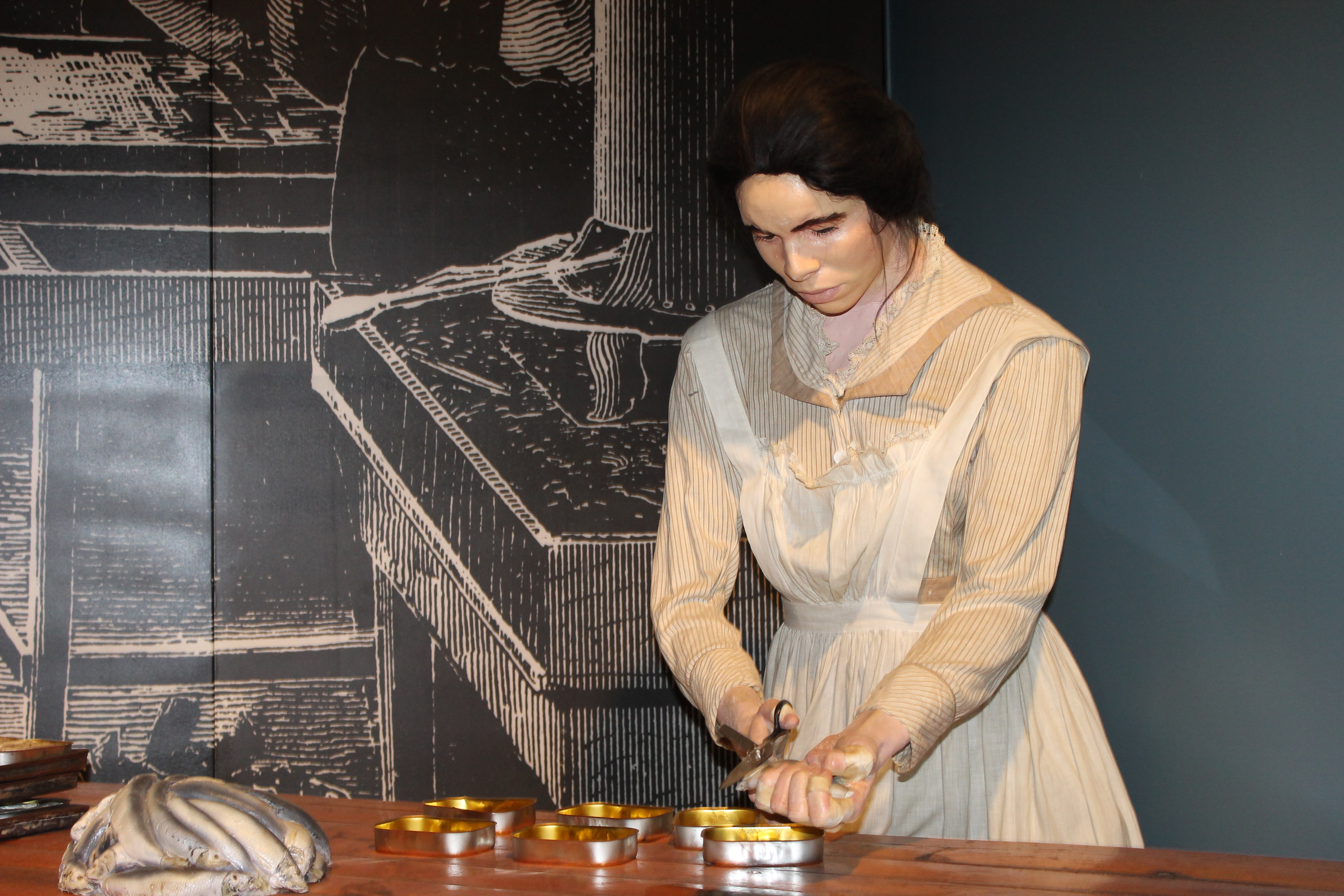 I took photo with Canon camera of exhibit of woman canning sardines at Maine State Museum in Augusta.